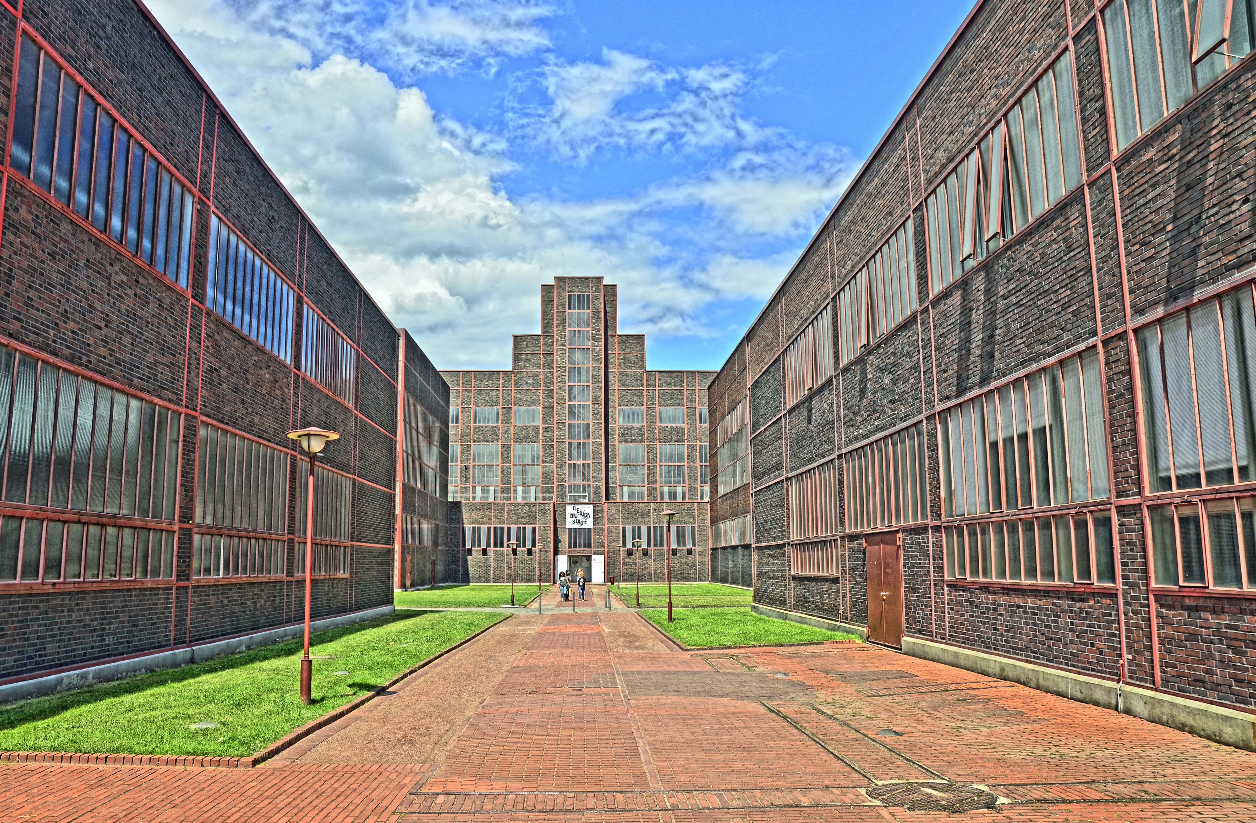 Zollverein Coal Mine industrial complex in Essen (Germany)